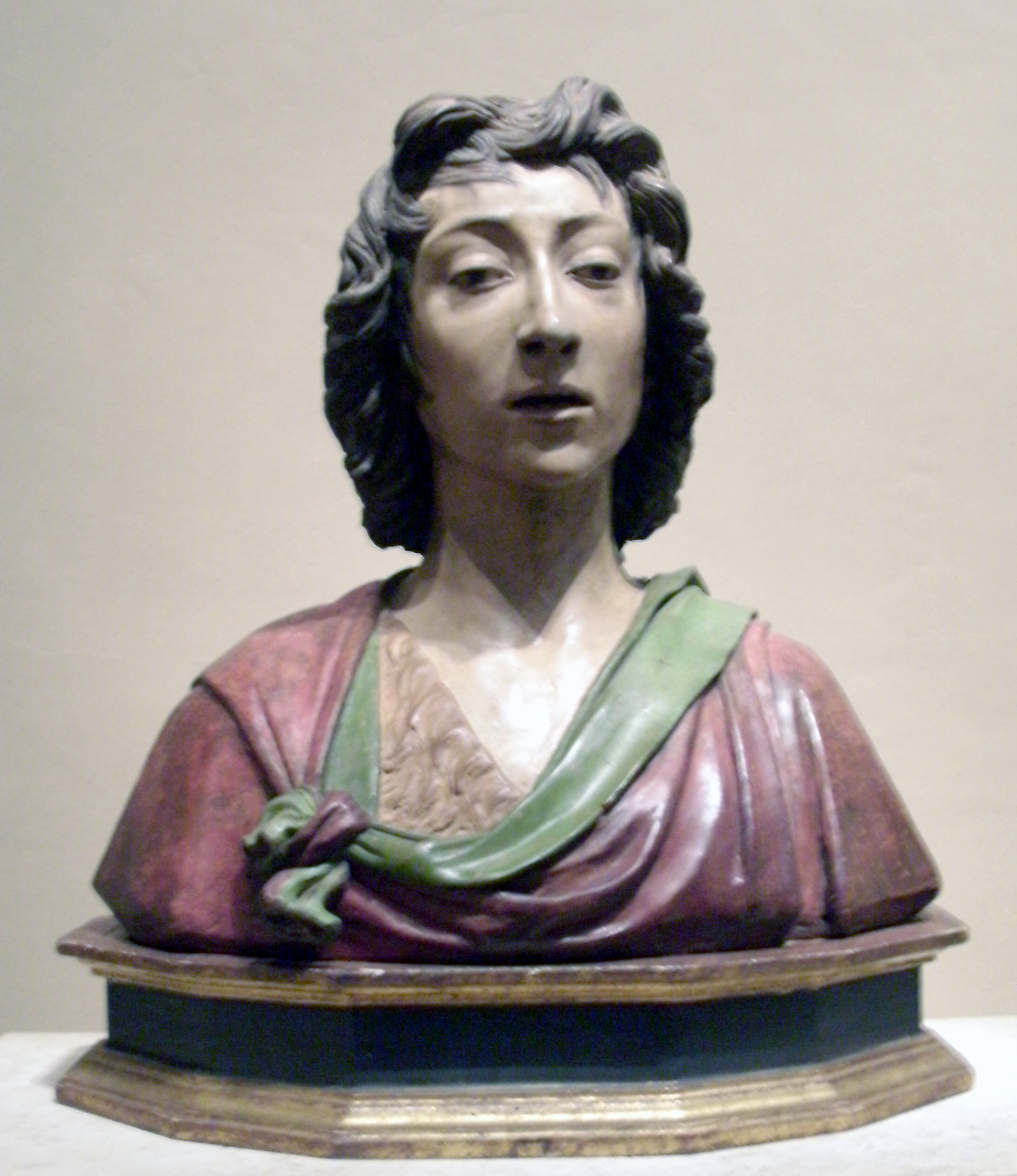 Saint John the Baptist (c. 1490, painted terracotta). Cropped and lightened from an image taken by me for Wikipedia.